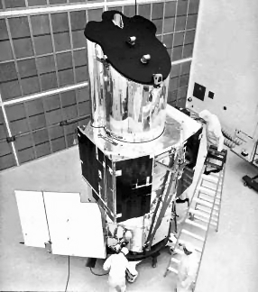 Orbiting Astronomical Observatory 3 (Copernicus) in a clean room. From [1].